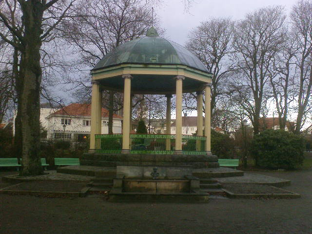 The Pavilion in the main park in Haugesund